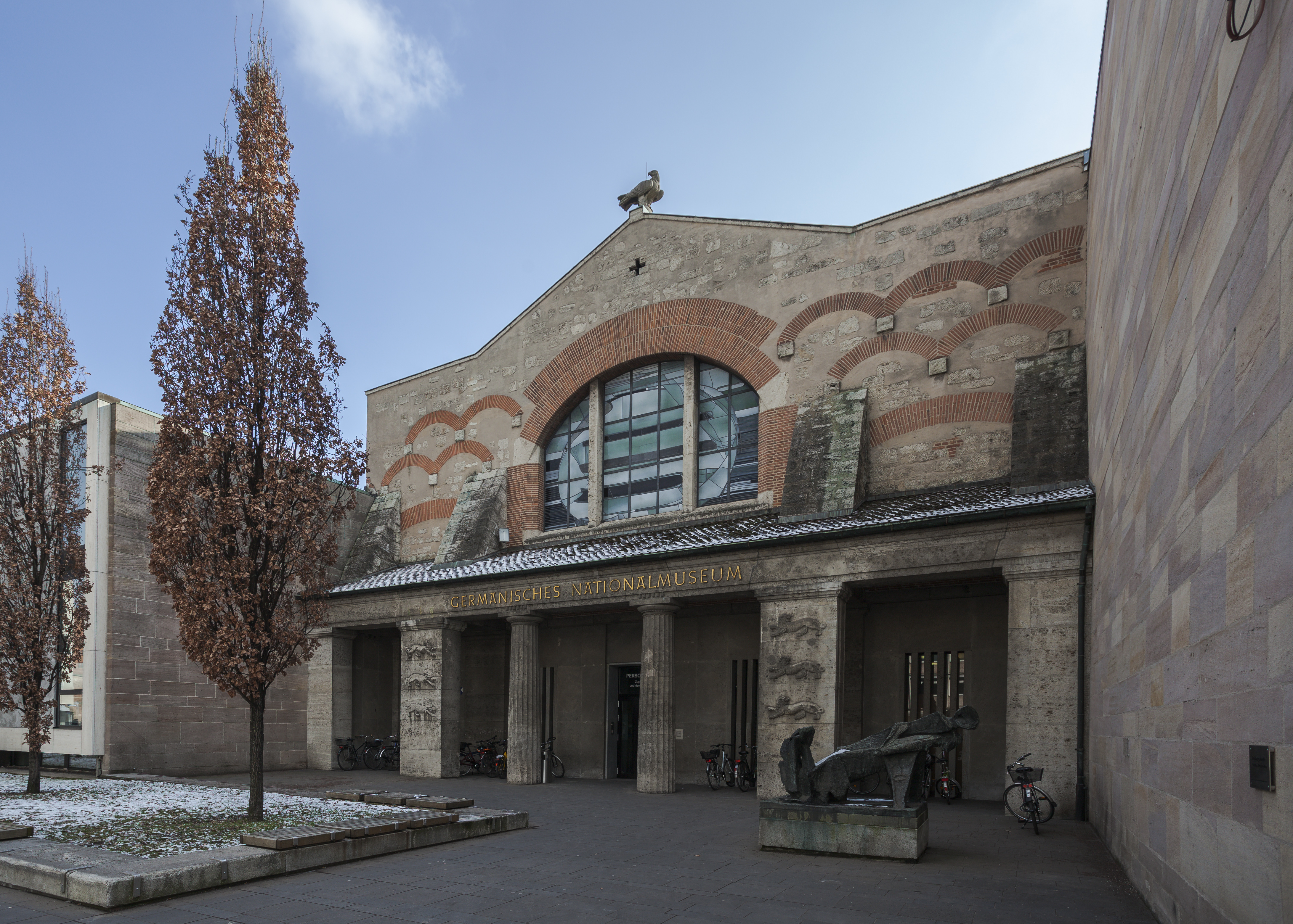 Church of St. Elisabeth, Nuremberg, Germany